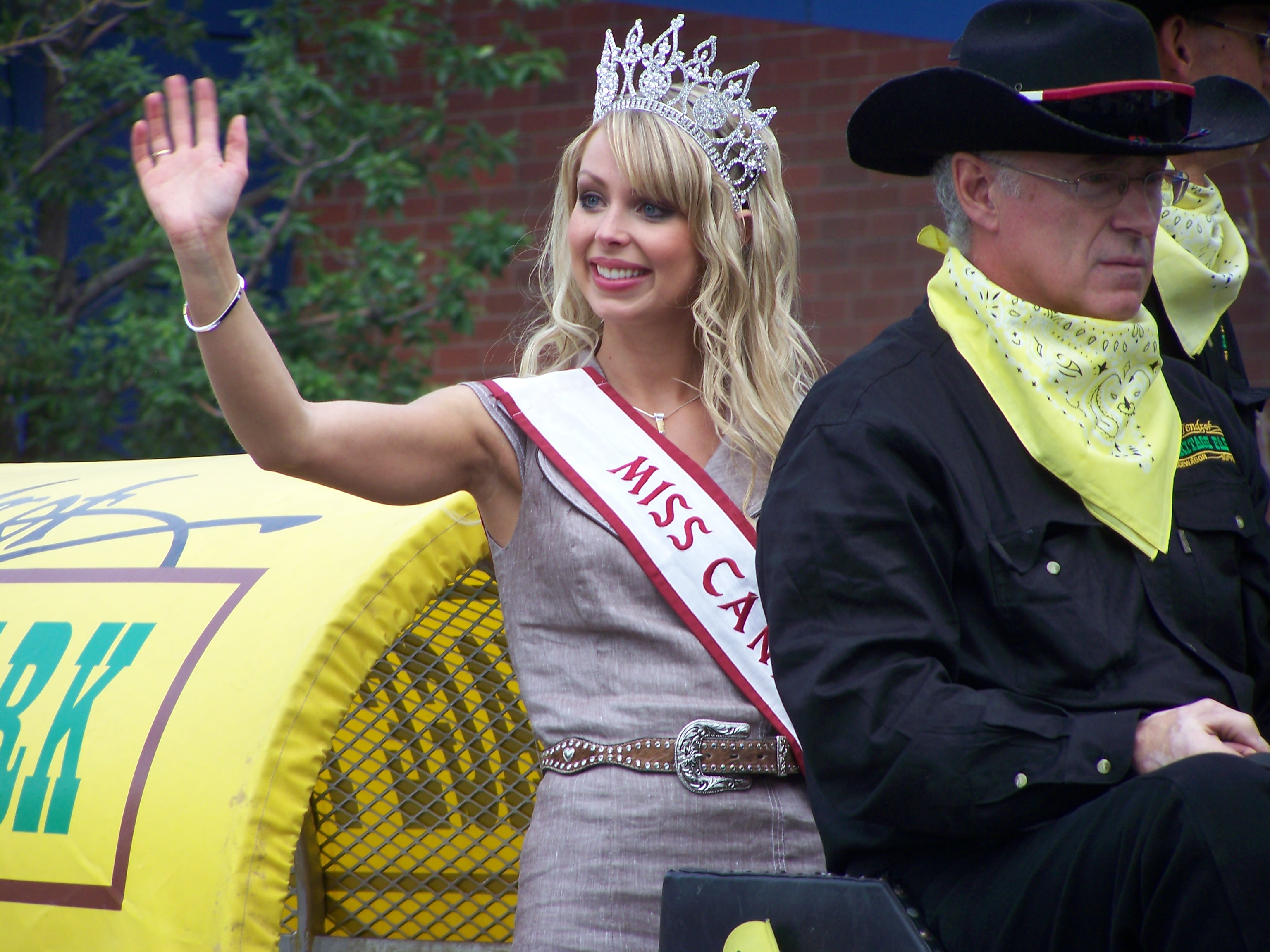 Miss Canada International 2008 Alesia Fieldberg in the 2008 Calgary Stampede parade.